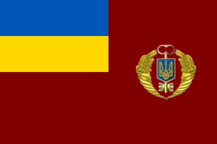 Flag of the State Agency of Reserve of Ukraine